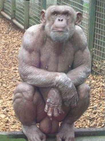 Bald male chimp. That allows his muscles to be displayed. Average chimp male is 3-4 times stronger that average human male.